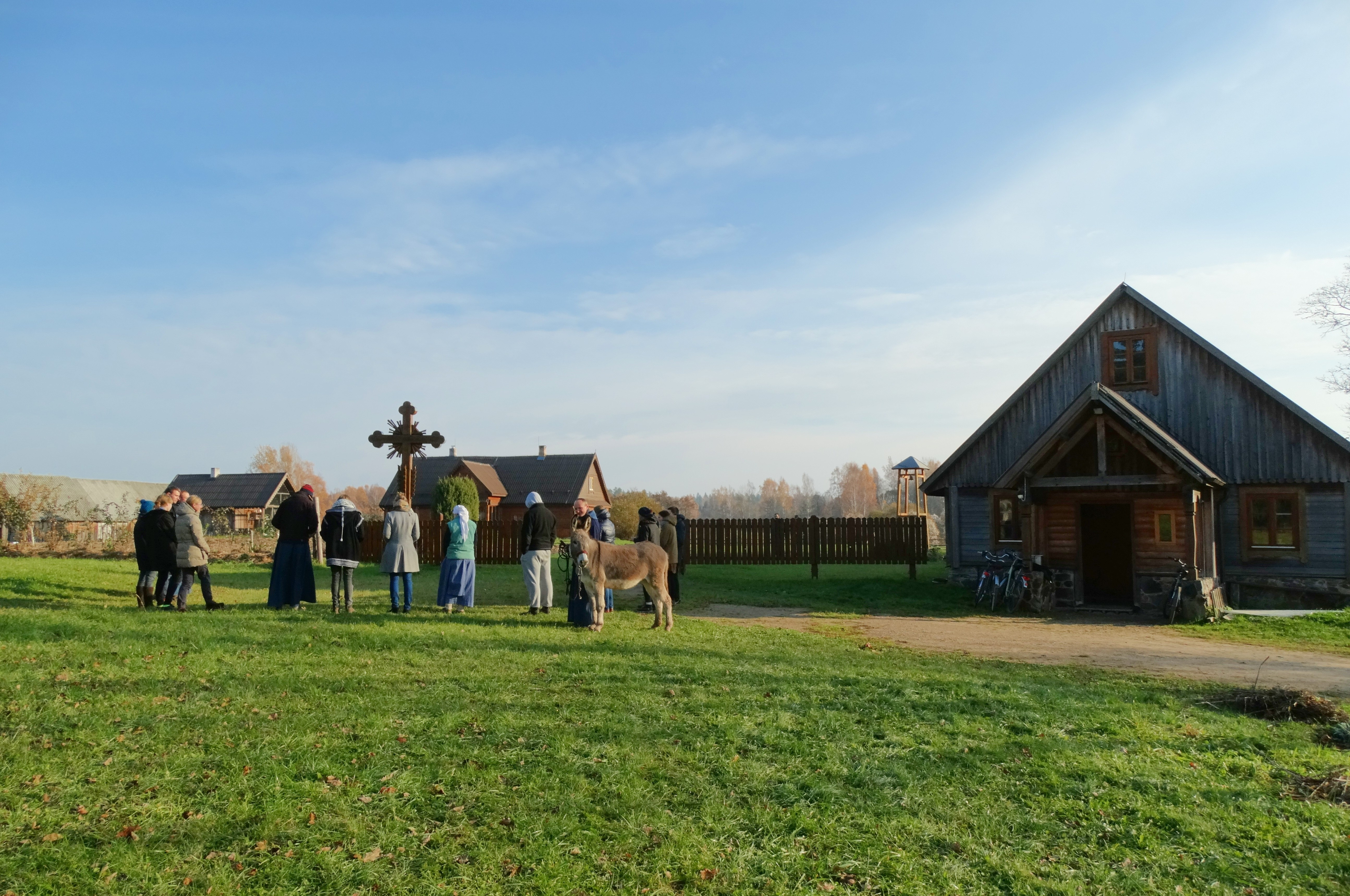 Fraternity of Tiberiade, Baltriškės, Zarasai district, Lithuania